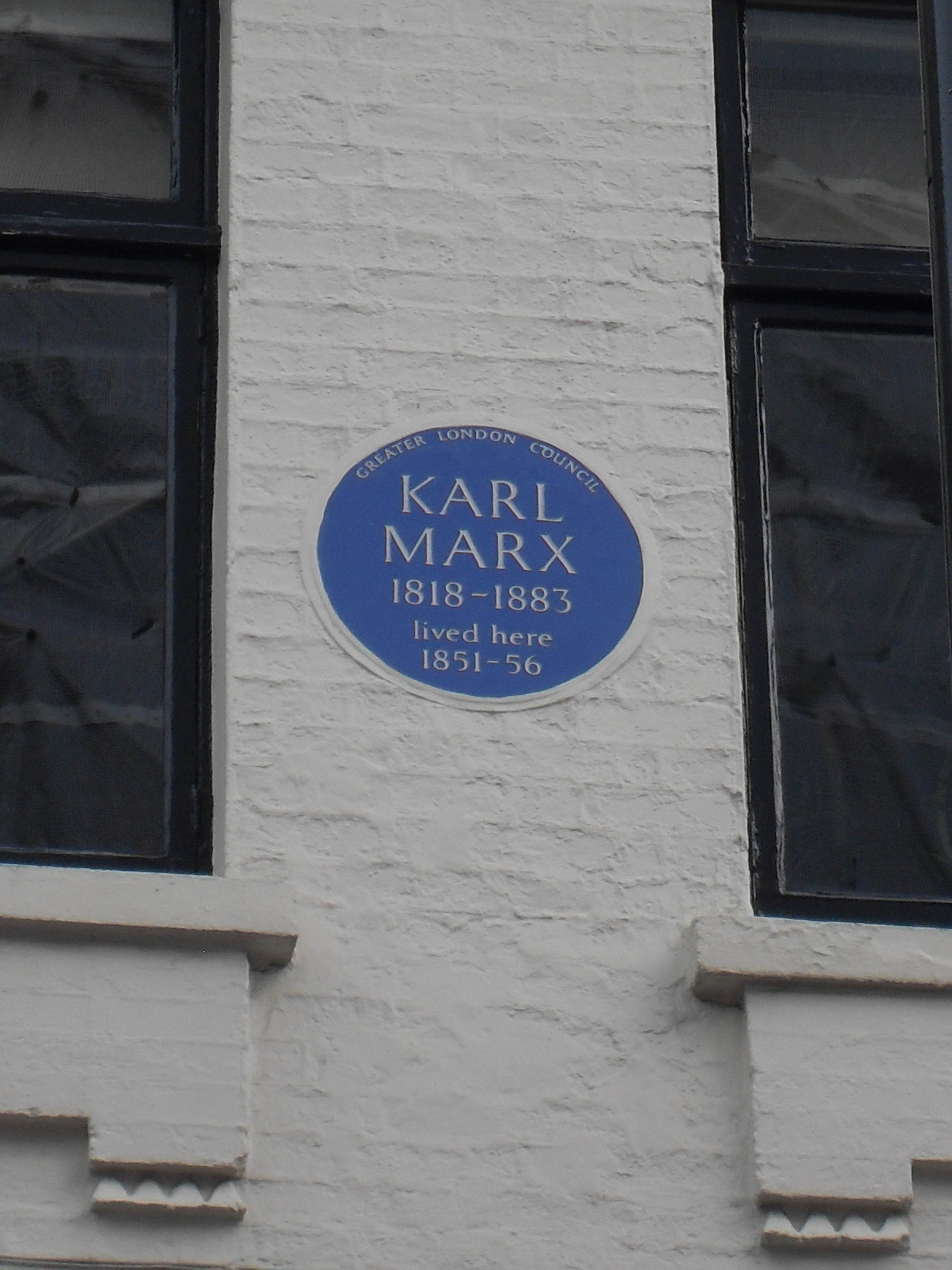 Restaurant Quo Vadis at Dean Street 28, London. Between 1851-1856 Karl Marx lived on the top floor of this building, with his wife and maid (both pregnant by him) and four children, after he was expulsed of his two previous addresses due to non payment of the rent. The blue commemorative plaque at the builing remembers "Karl Marx (1818-1883) lived here 1851-56".